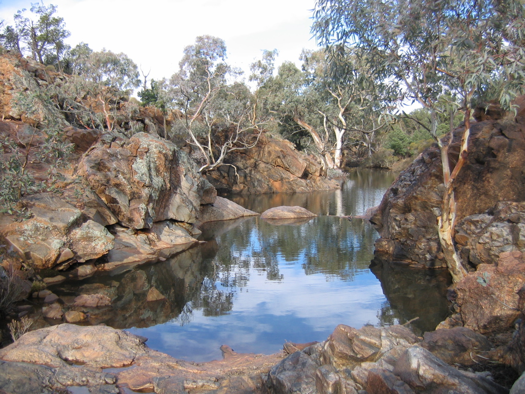 Waterhole on the Granite Plateau Creek, Mawson Plateau, South Australia